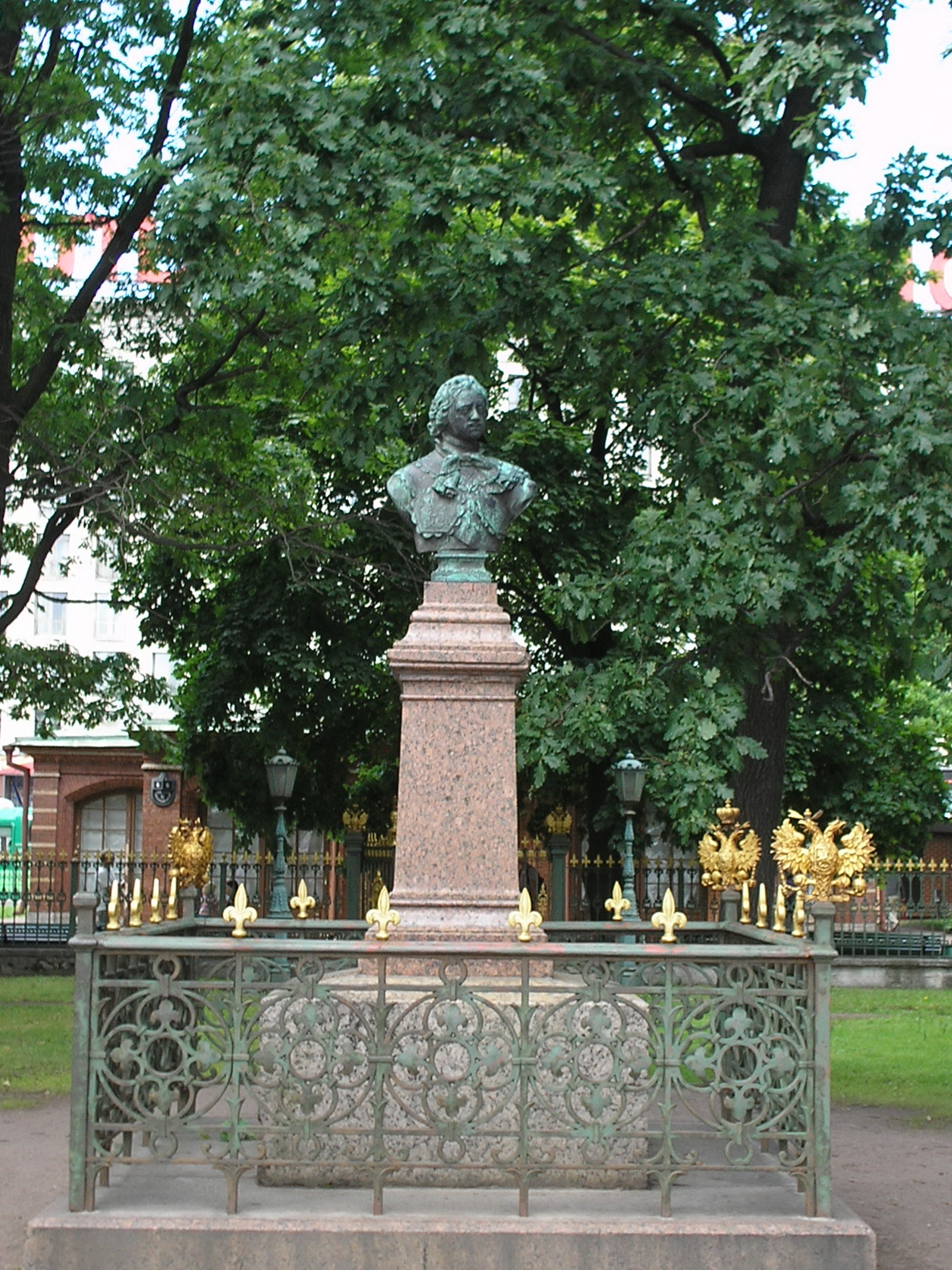 Peter I bust (sculptor Parmen Zabello)